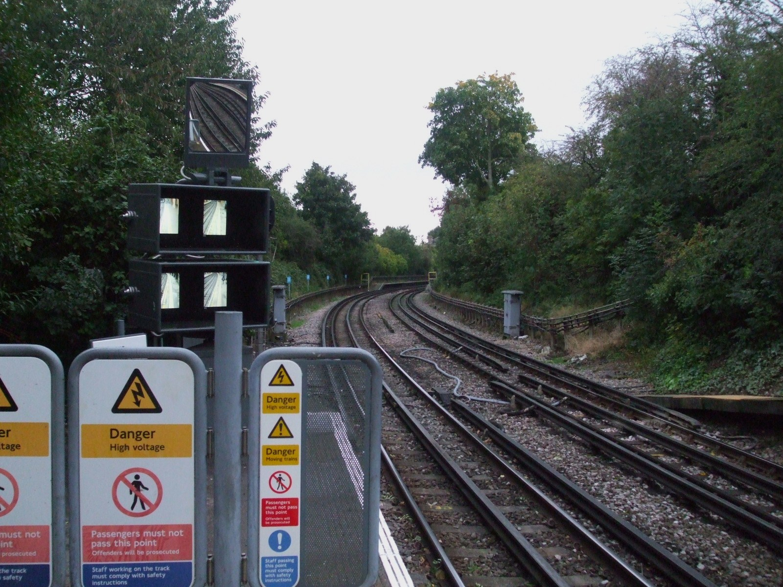 Osterley tube station looking east, with the former platforms at Osterley & Spring Grove station clearly visible. The present station was built as a replacement in the 1930s.